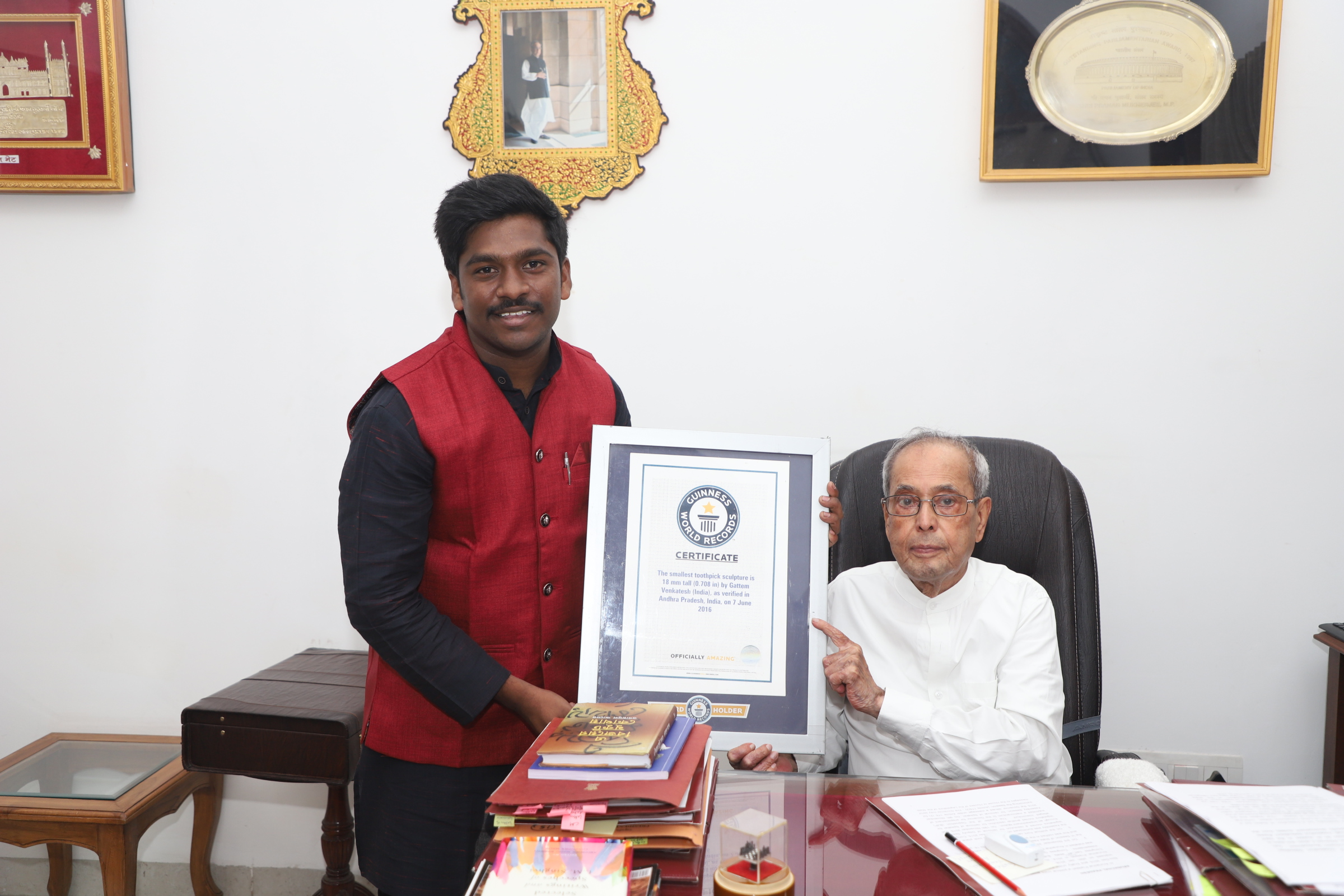 Gattem Venkatesh receiving an award from then President Pranab Mukharjee